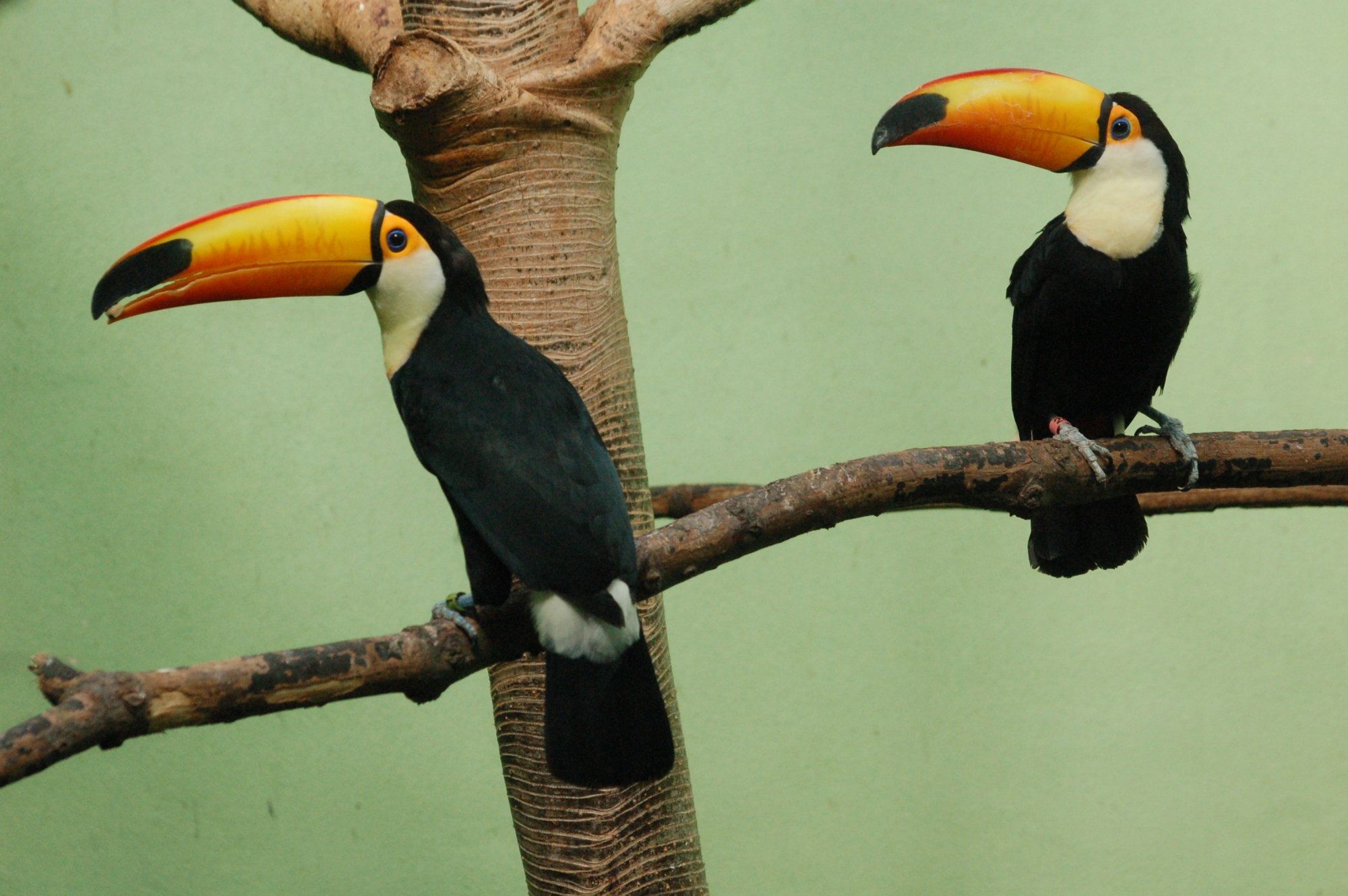 Ramphastos toco in the Bronx Zoo (New York). I'm certain there should be a pint of black stuff around here somewhere.